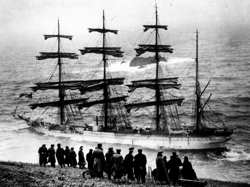 Salcombe, England; 50.237865,-3.774799, 'Herzogin Cecilie' hits rocks in the fog at Salcombe in Devon. The windjammer, the largest sailing ship in the world, was famous as the winner of several grain races from Australia to England. As all hope of saving the ship was abandoned, the crew were rescued by the Salcombe Life Boat. Publisher: John Oxley Library, State Library of Queensland Description: Digital format: image/jpeg ; Original format: copy print : b&w Identifier: Image number: 131768